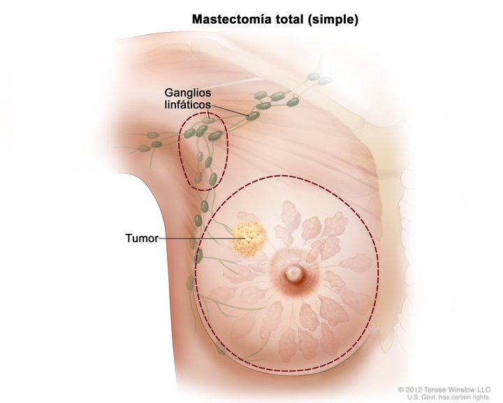 Title Total (simple) Mastectomy - Spanish Description Mastectomía total (simple); el dibujo muestra la extirpación de la mama y los ganglios linfáticos. La línea de puntos muestra el lugar donde se extirpa toda la mama. También se pueden extirpar algunos ganglios linfáticos debajo del brazo. Topics/Categories Anatomy -- Breast Treatment -- Surgery Type Color, Medical Illustration Source National Cancer Institute